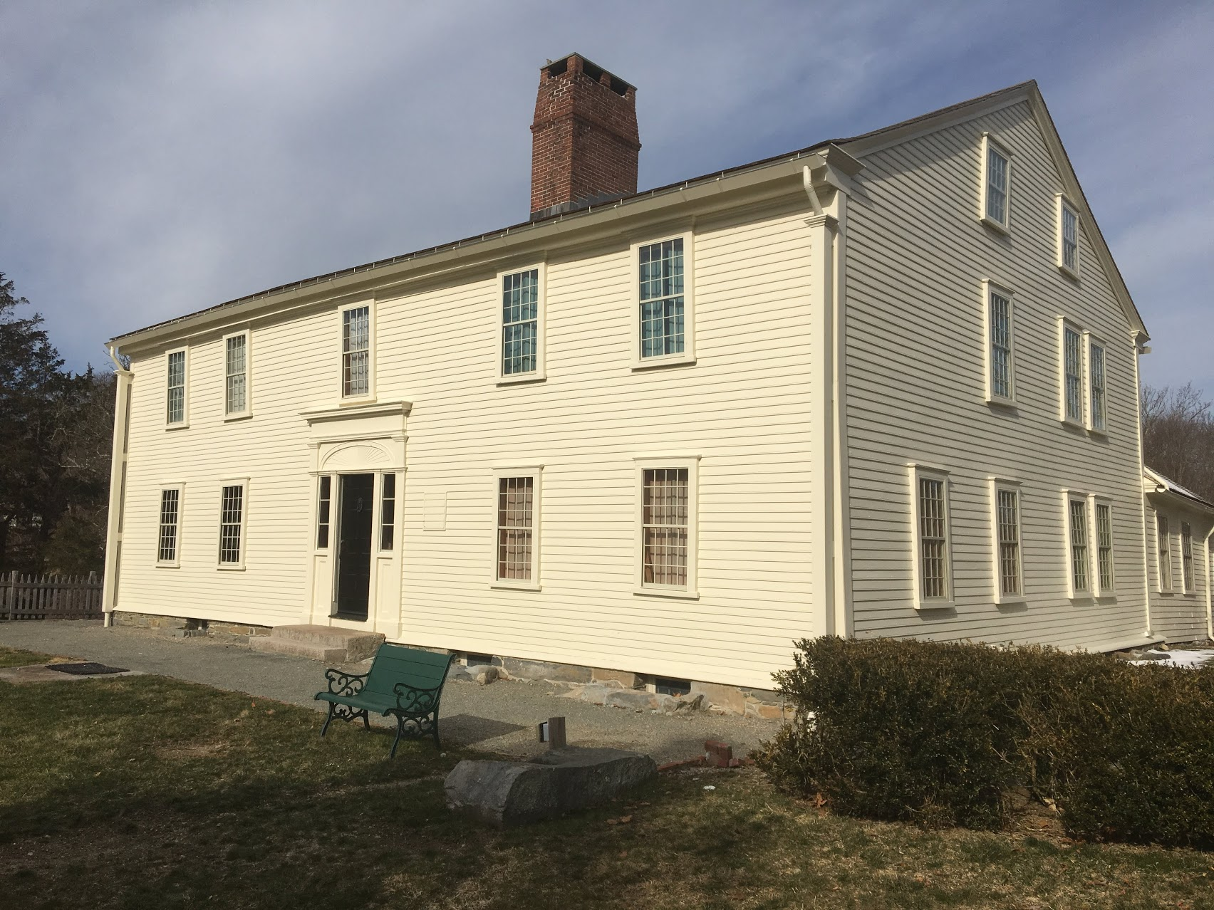 Smith's Castle in March 2018